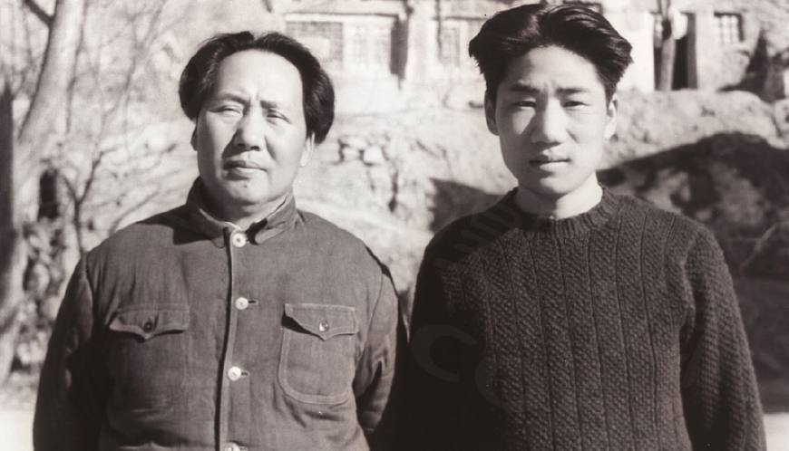 Mao Zedong with his son Mao Anying